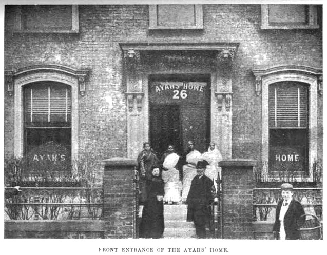 London City Mission magazine in 1900